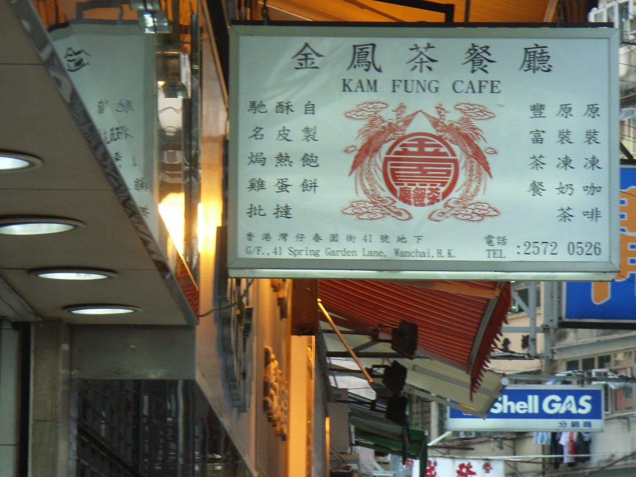 灣仔舊區街道 Wanchai old streets, Hong Kong. (A1 Wong East).